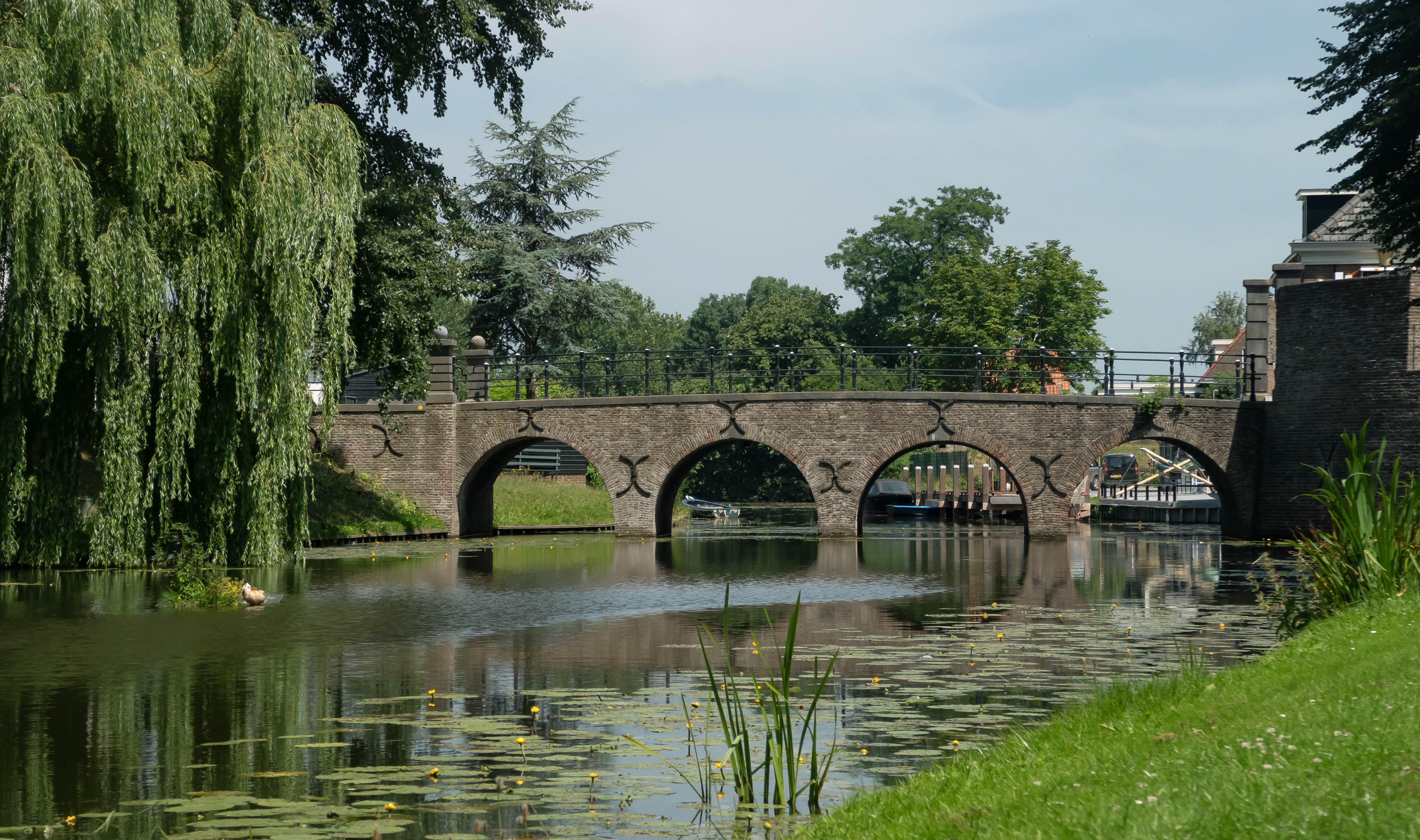 Elburg, monumental bridge: de Vischpoortbrug